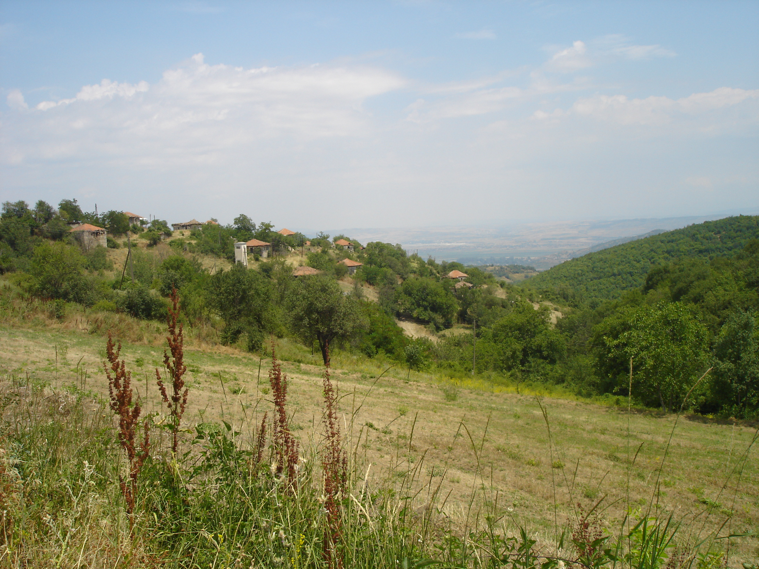 village of Gradovci, Macedonia